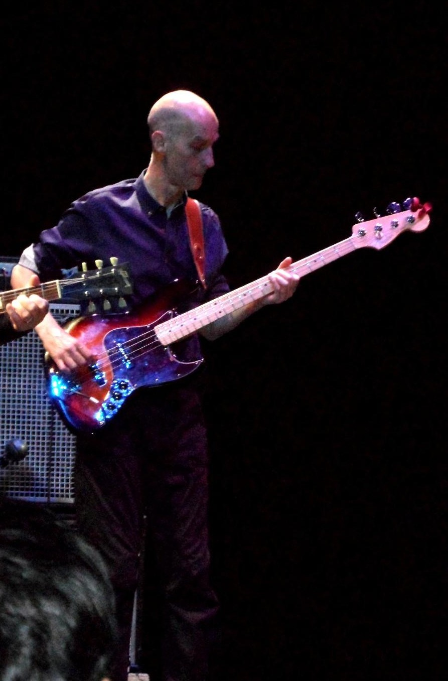 Playing with Graham Parker and the Rumour at the Park West in Chicago on December 18th, 2012